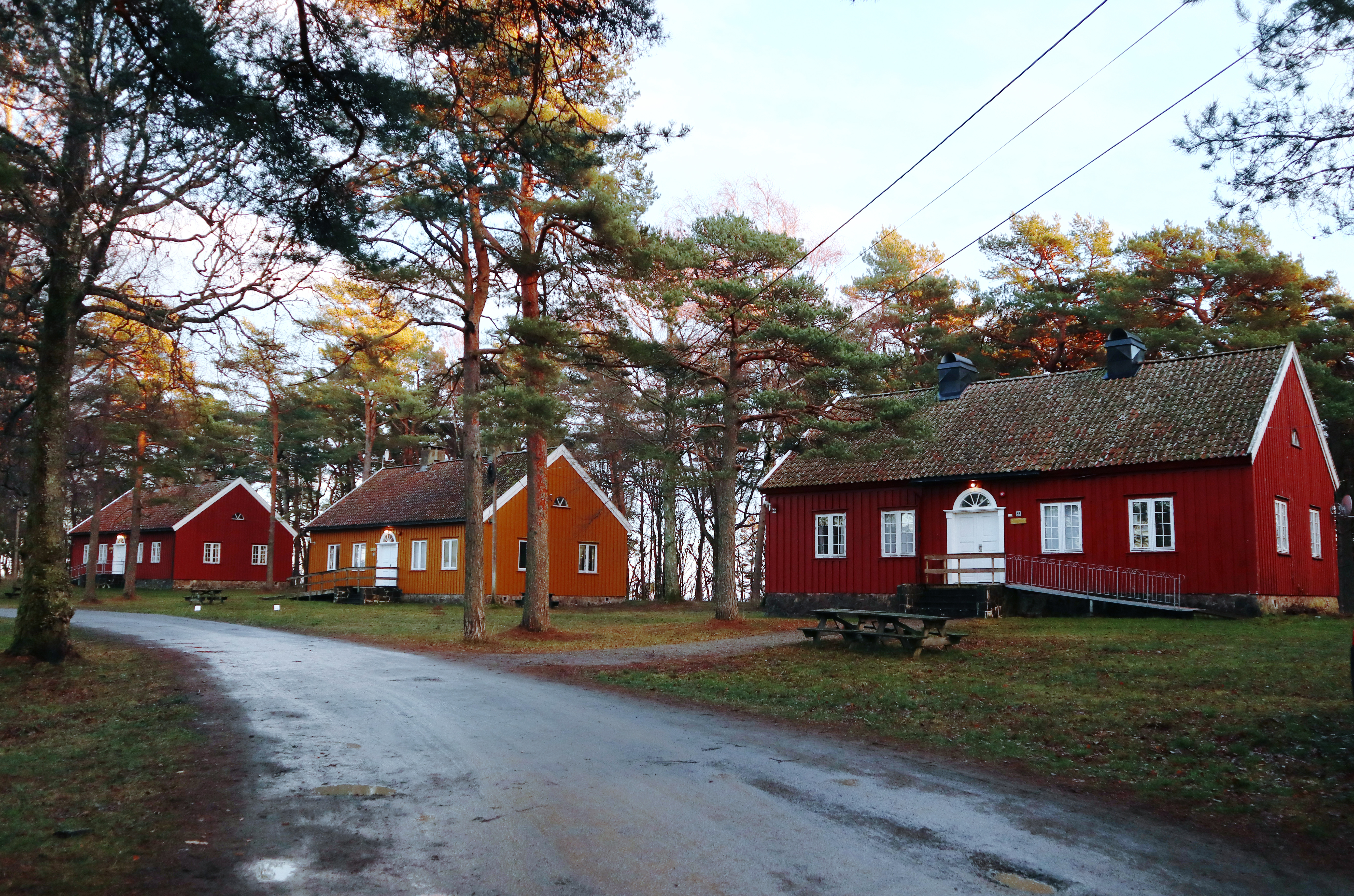 Officer living houses in Hove camp